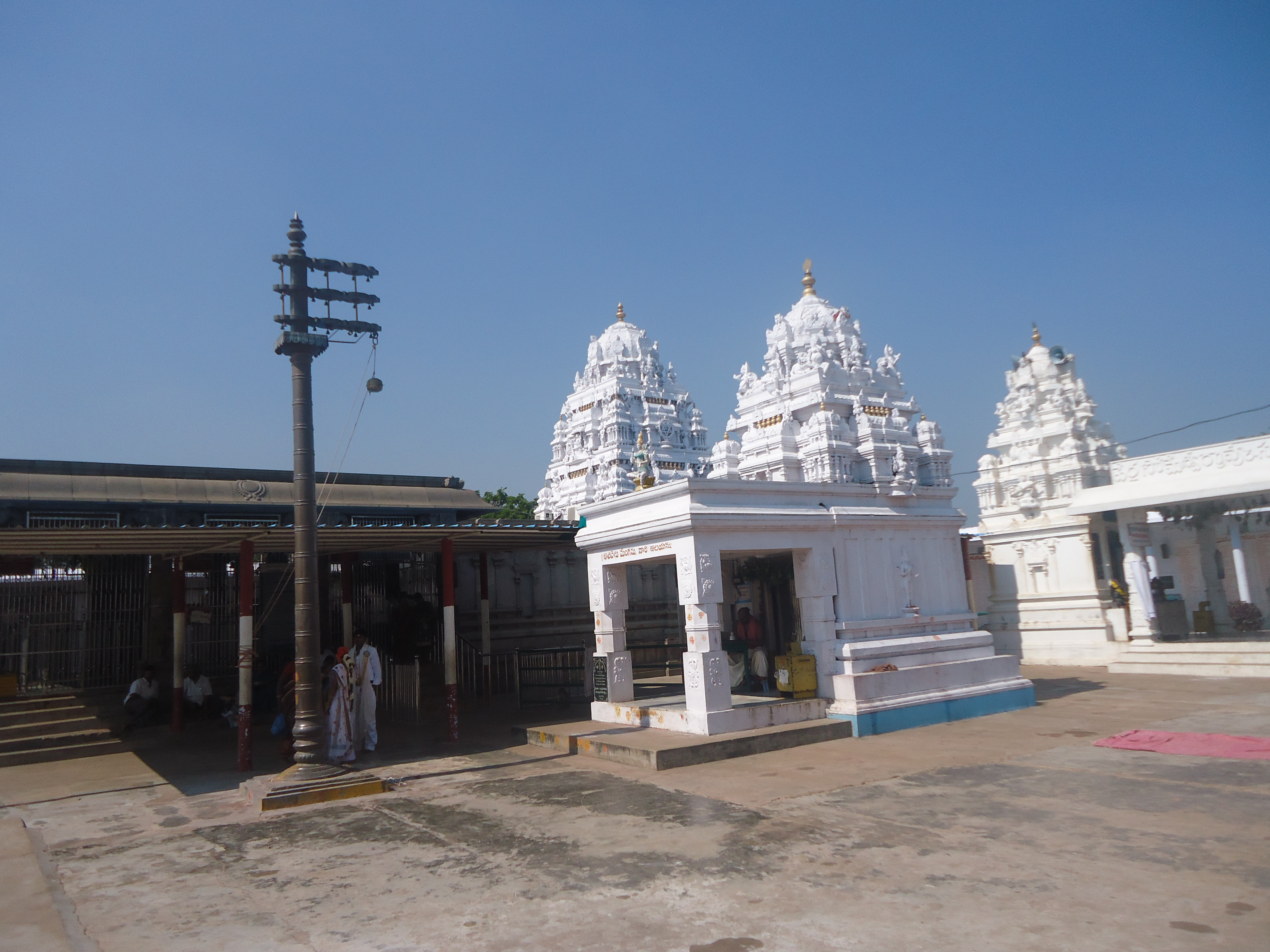 Jamalapuram temple